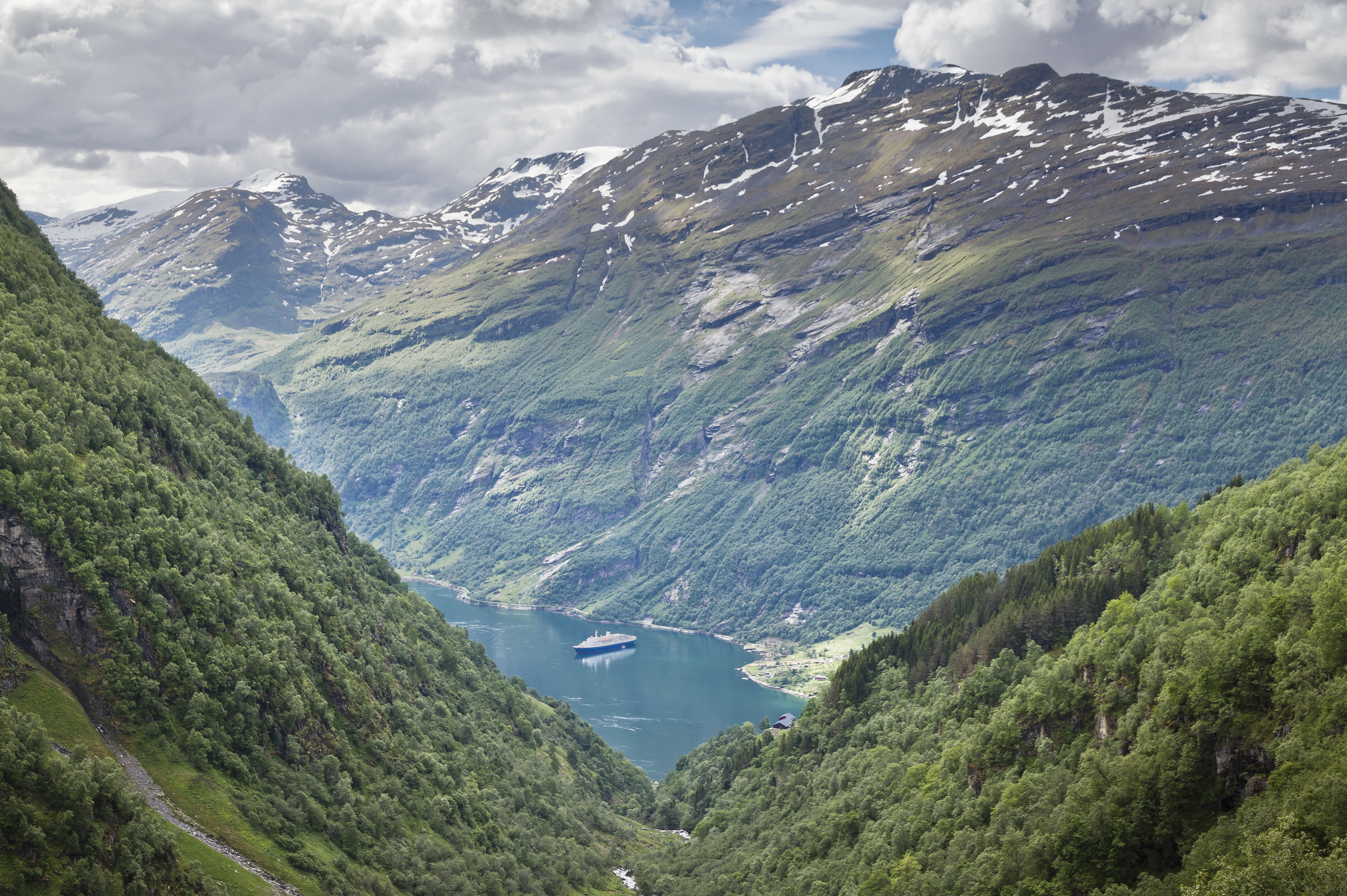 A view to Geirangerfjorden from a pass between the fjord and Eidsdalen in Stranda municipality, Møre og Romsdal, Norway in 2013 June.